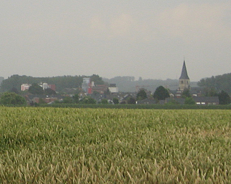 Zoom in on the village center of Alken